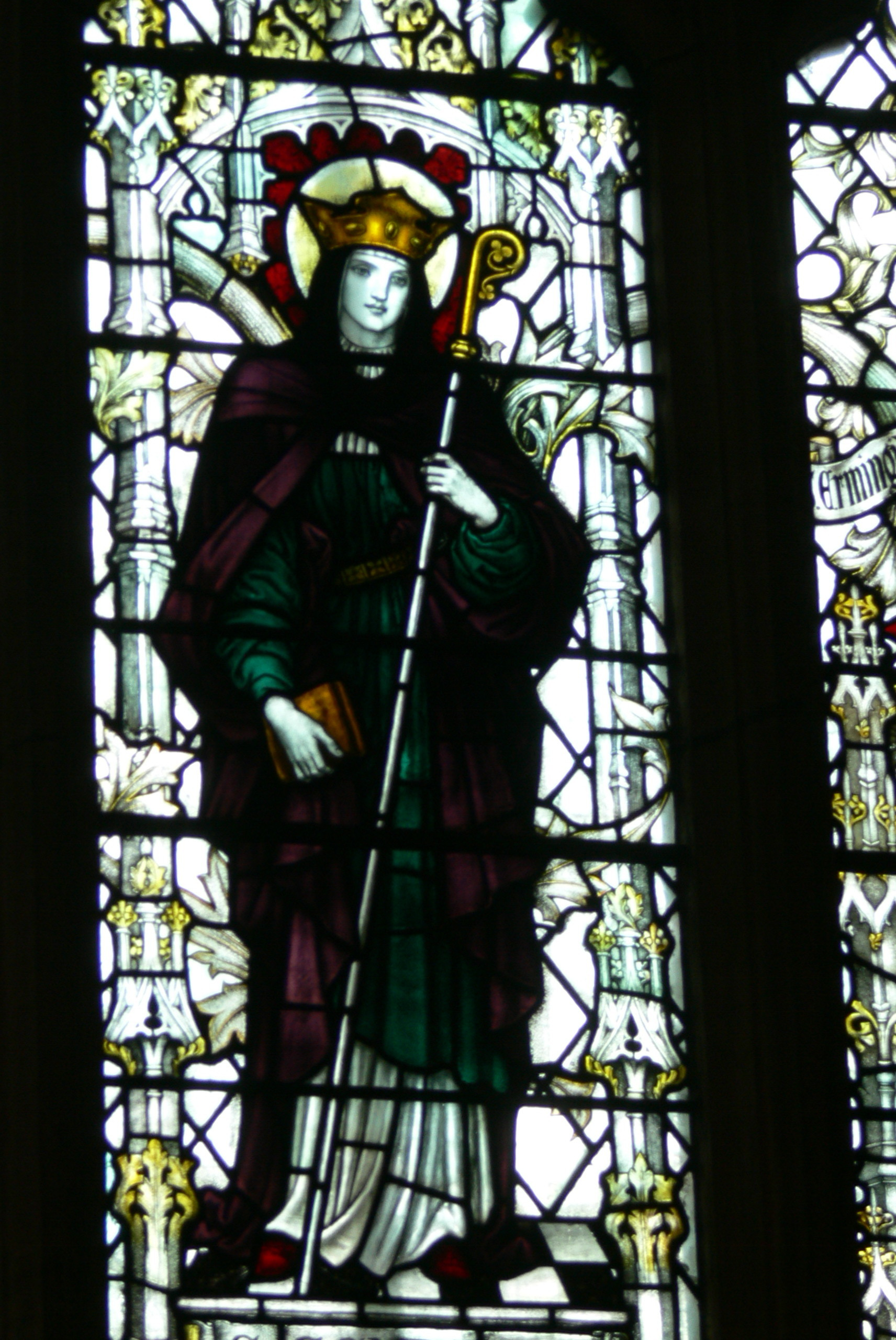 Chester (England). Cathedral: Refectory - Eastern window (1916): Saint Sexburga of Ely (detail)